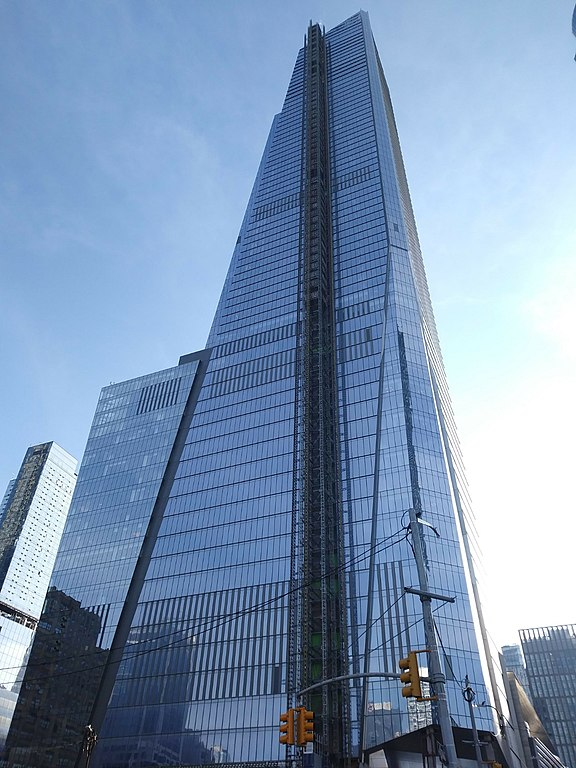 Street view of 30 Hudson Yards.